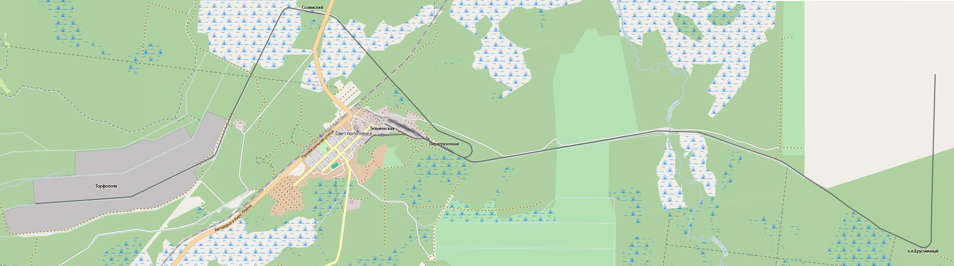 Dymnoe peat narrow gauge railway